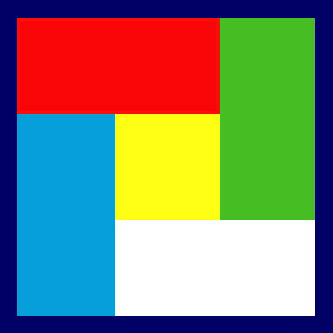 The yungdrung ("eternity") symbol of Tibetan Bön; a hooked cross or swastika.